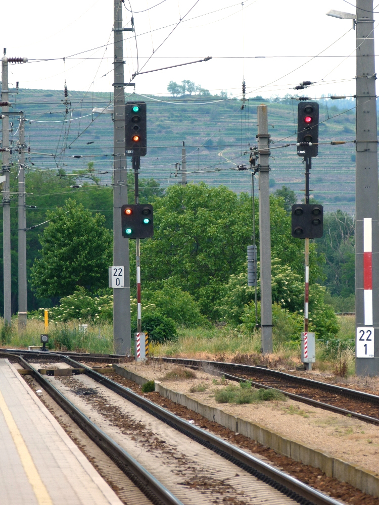 Austrian colour light signals (signals K103 and K105 at Hadersdorf am Kamp, June 2012)